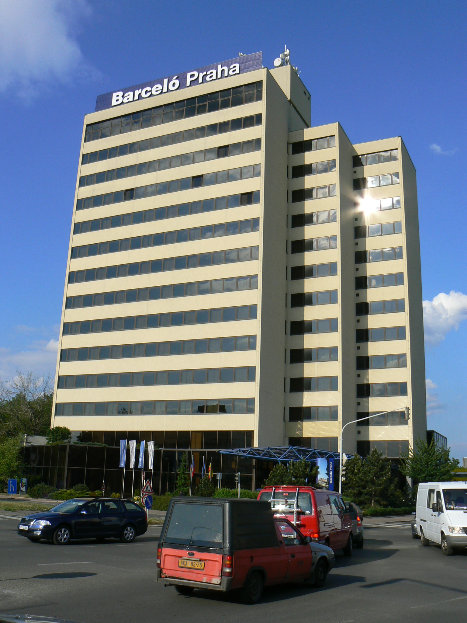 Building of The Hotel Barceló in Prague 4 (Dlouhá cesta location)